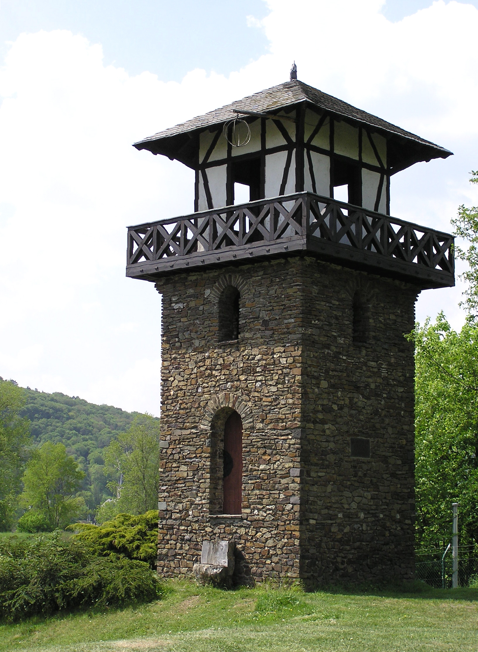 Wrong reconstructed Limes watch tower, near Rheinbrohl, Germany